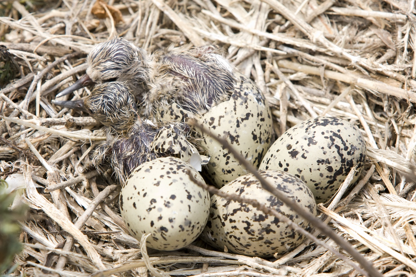 Black-necked Stilt (Himantopus mexicanus) eggs and chicks at South Bay Salt Works, Port of San Diego, San Diego, USA.